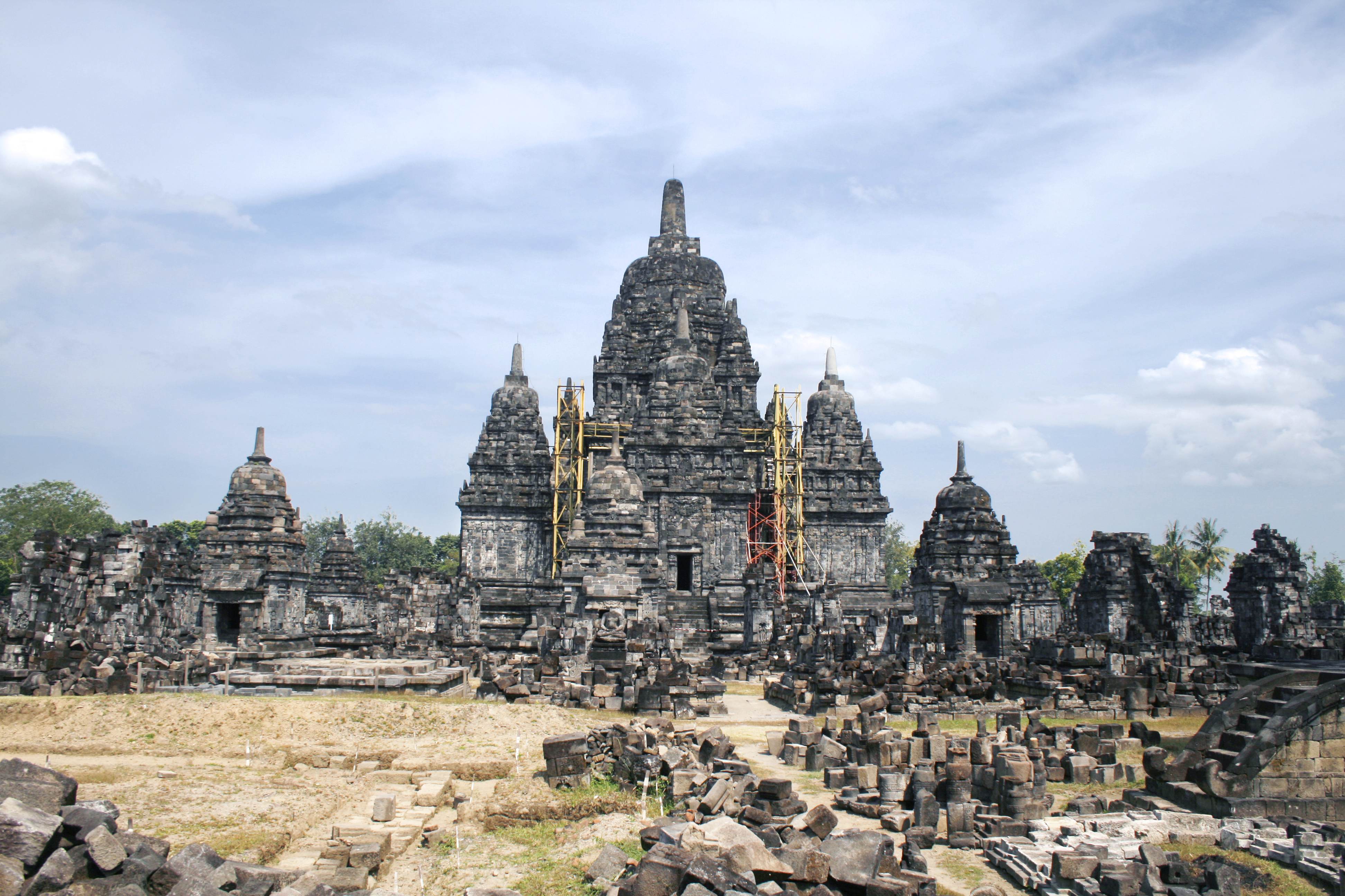 The 9th century Sewu buddhist temple complex near Prambanan, Yogyakarta. The second largest buddhist temple in Indonesia after Borobudur. The main temple in the center is supported by metal frame structure to support the temple after Java earthquake in May 2006.